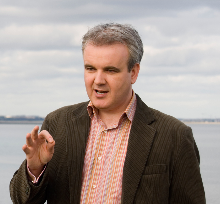 Colmogorman1